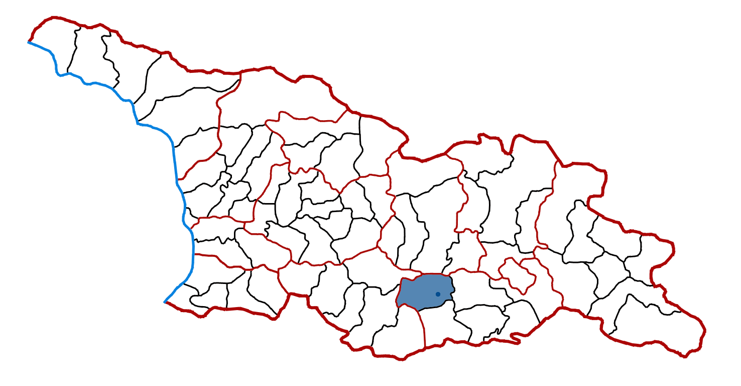 Location of Tsalka district in Georgia